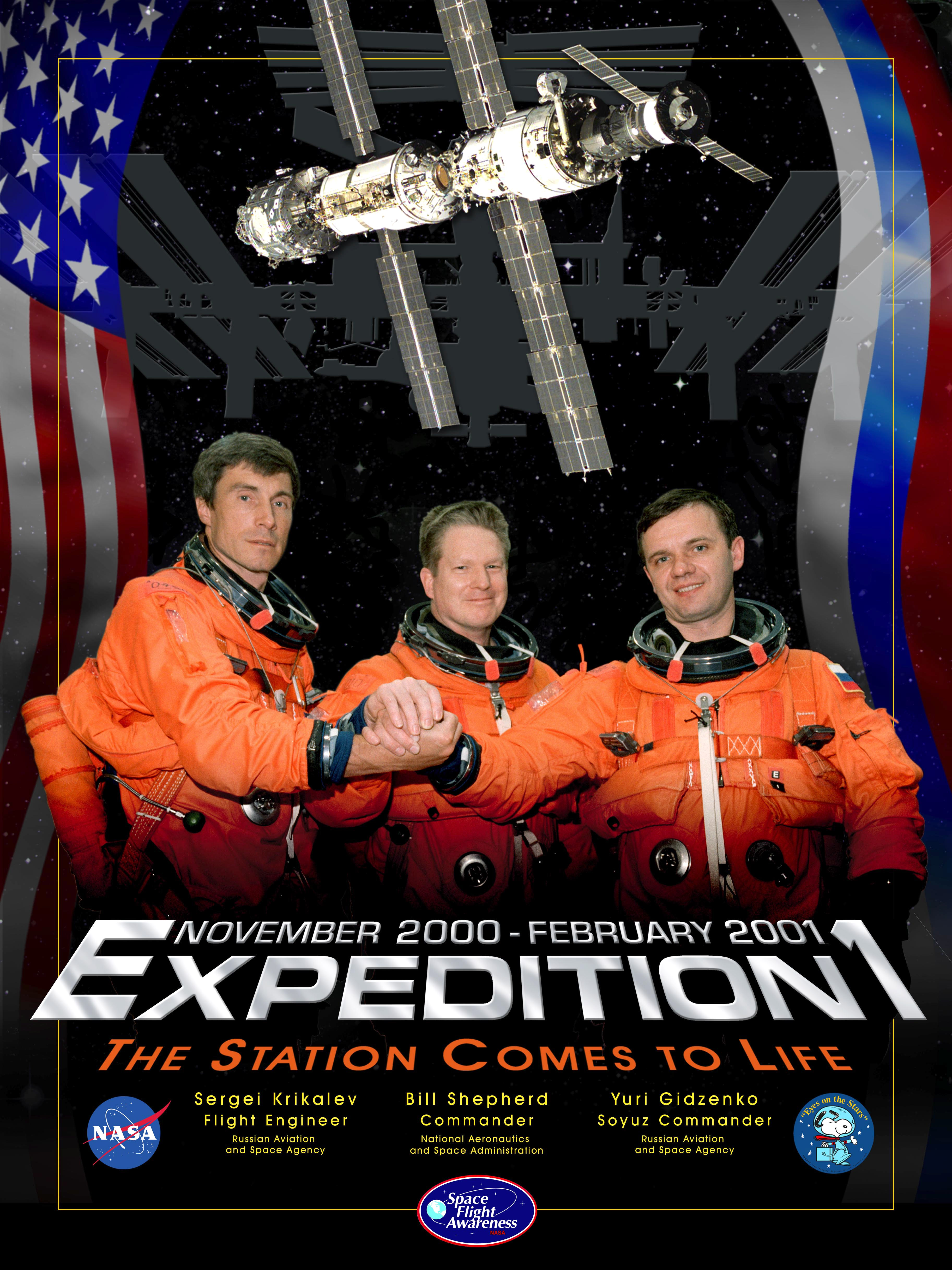 Expedition 1 "The Station Comes to Life" NASA Space Flight Awareness mission poster